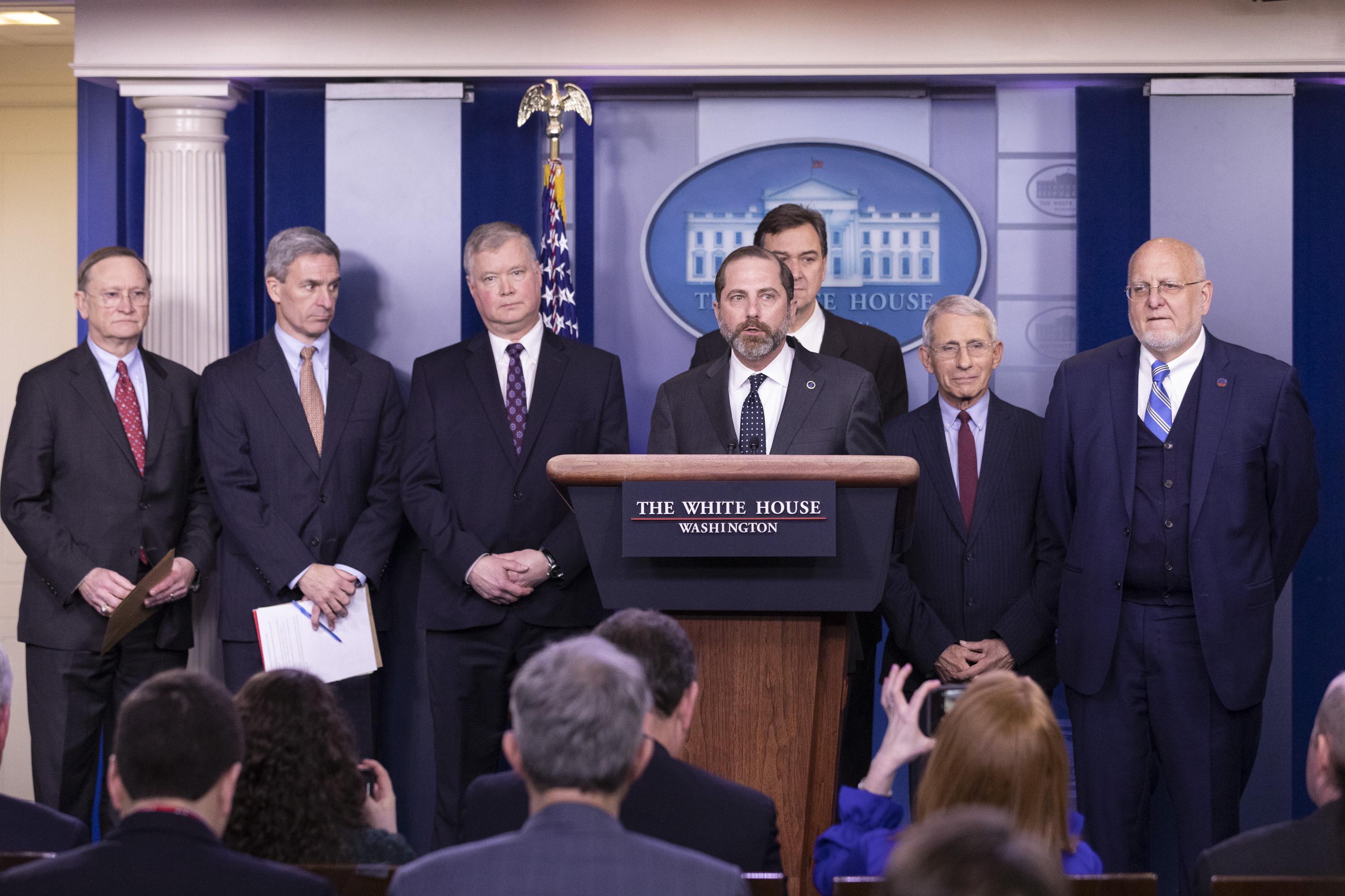 Secretary of Health and Human Services Alex Azar addresses a briefing on the latest information concerning the Coronavirus Friday, Jan. 31, 2020, in the James S. Brady Briefing Room of the White House. (Official White House Photo by Keegan Barber)